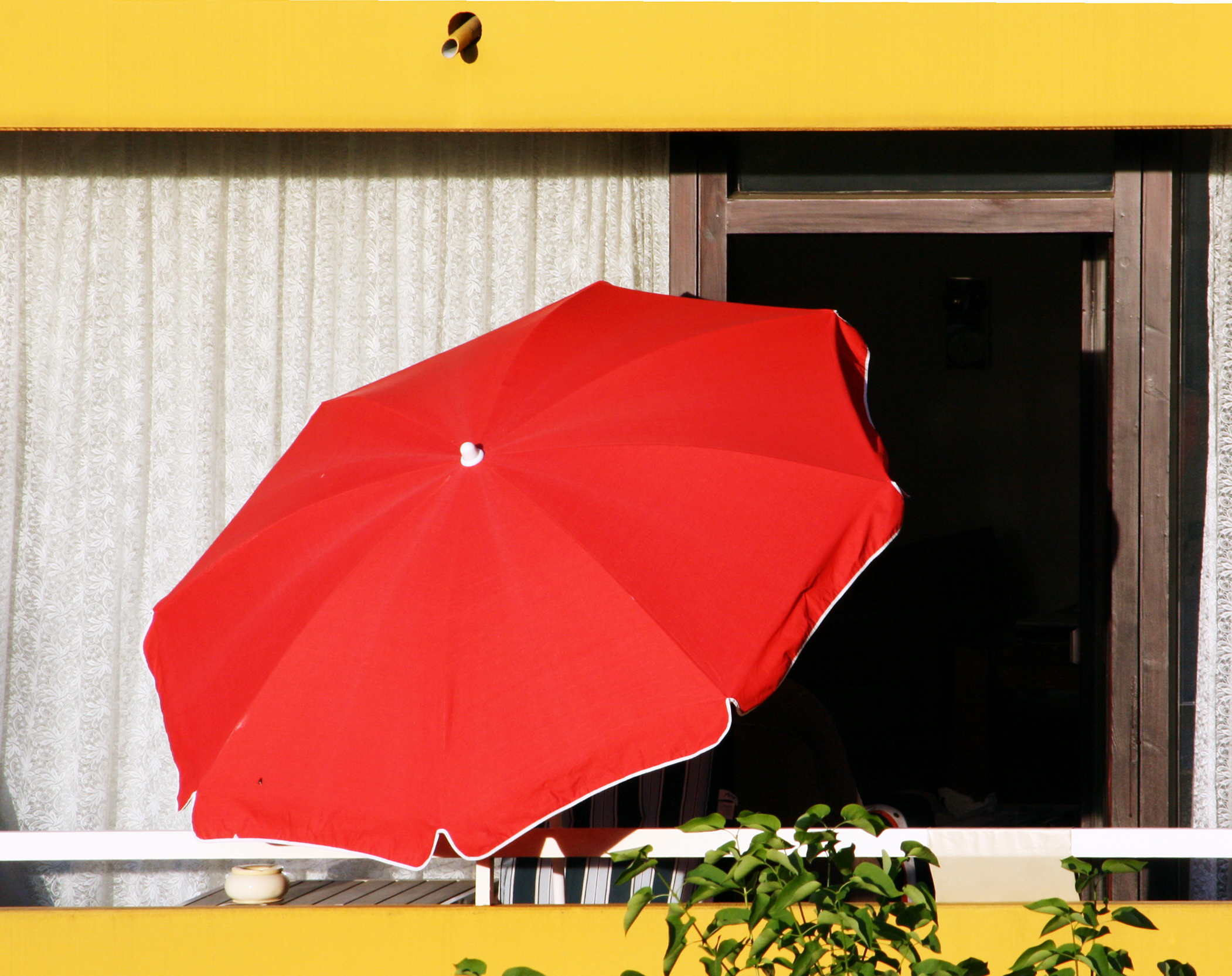 Red umbrella on a balcony. Sun protection on a balcony.